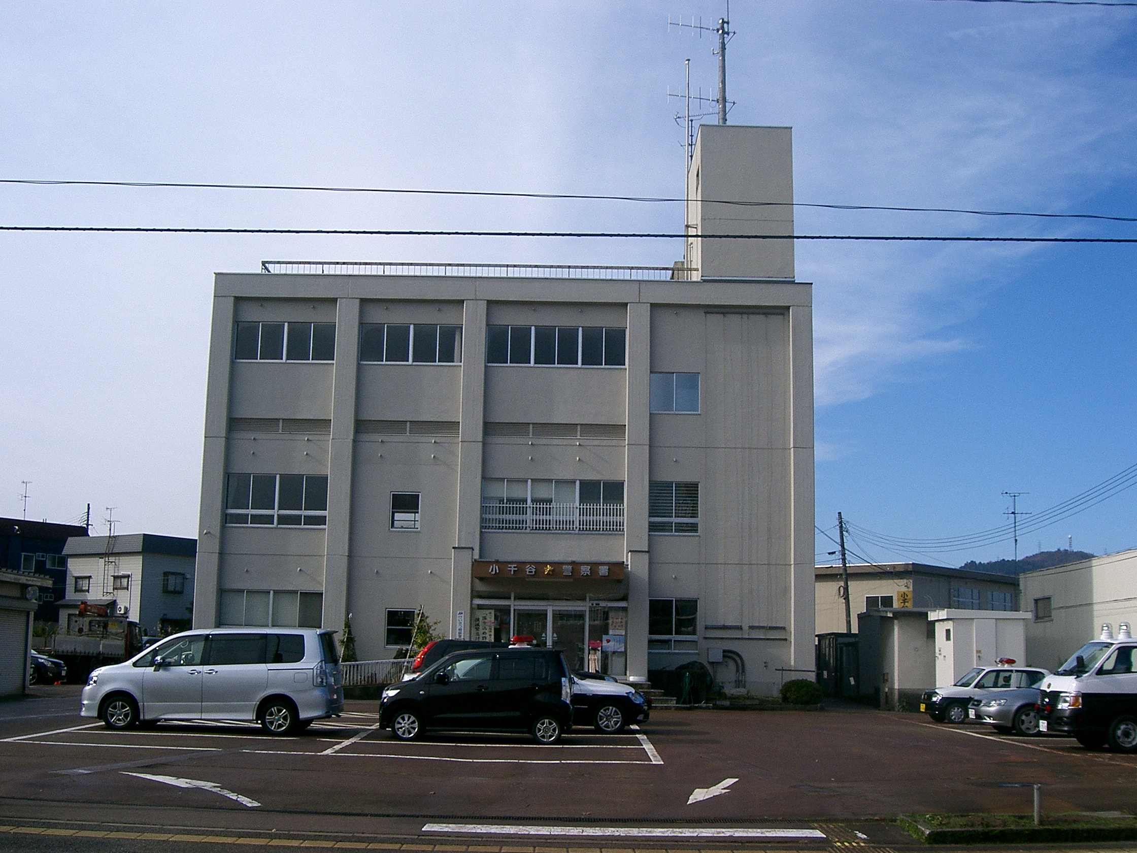 Ojiya Police Station